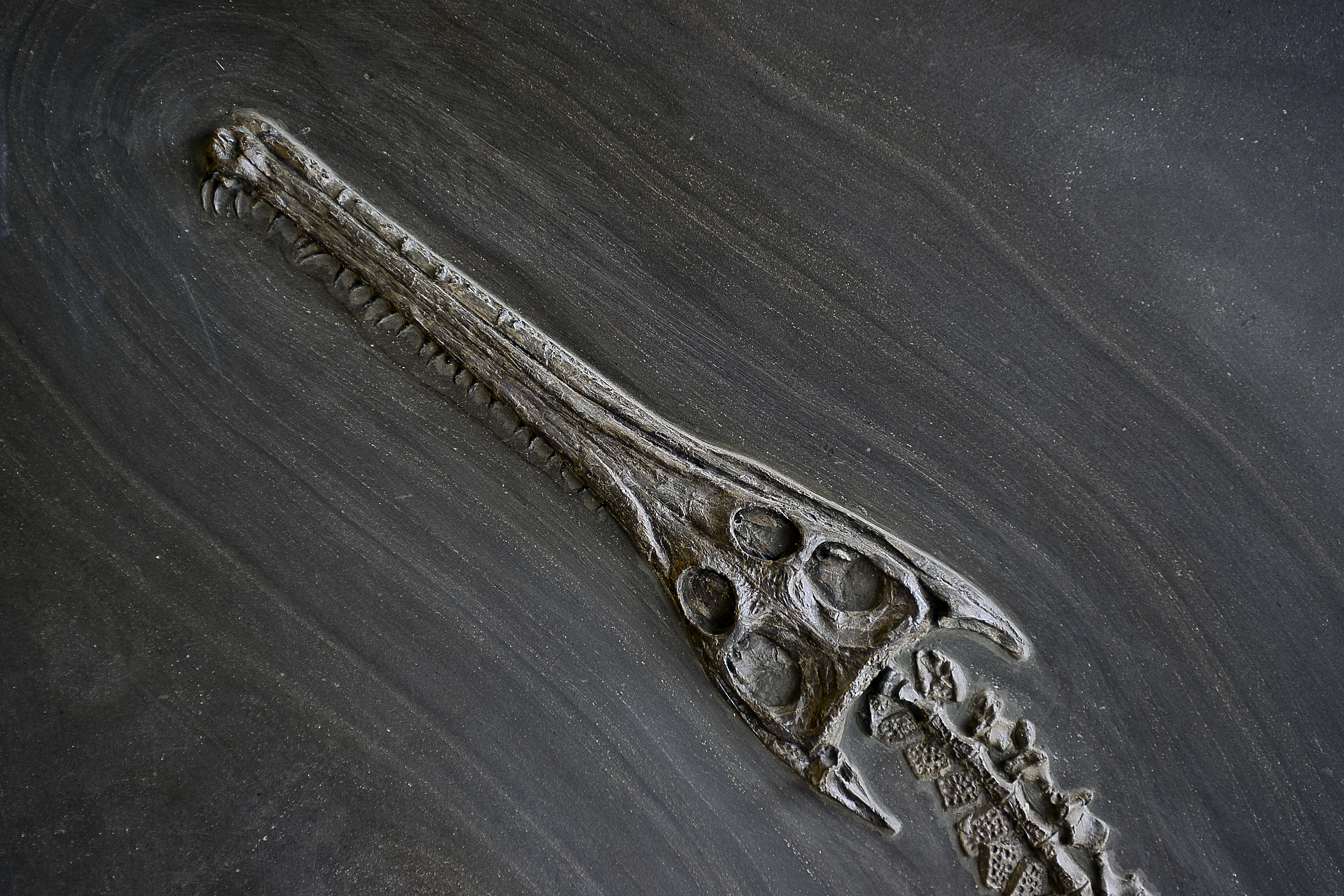 Saltwater crocodile Skull Macrospondylus bollensis Stage : Lower Jurassic (Toarcian) 185 million years Locality : Holzmaden Germany Size : 165x87 cm